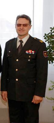 Slovene officer